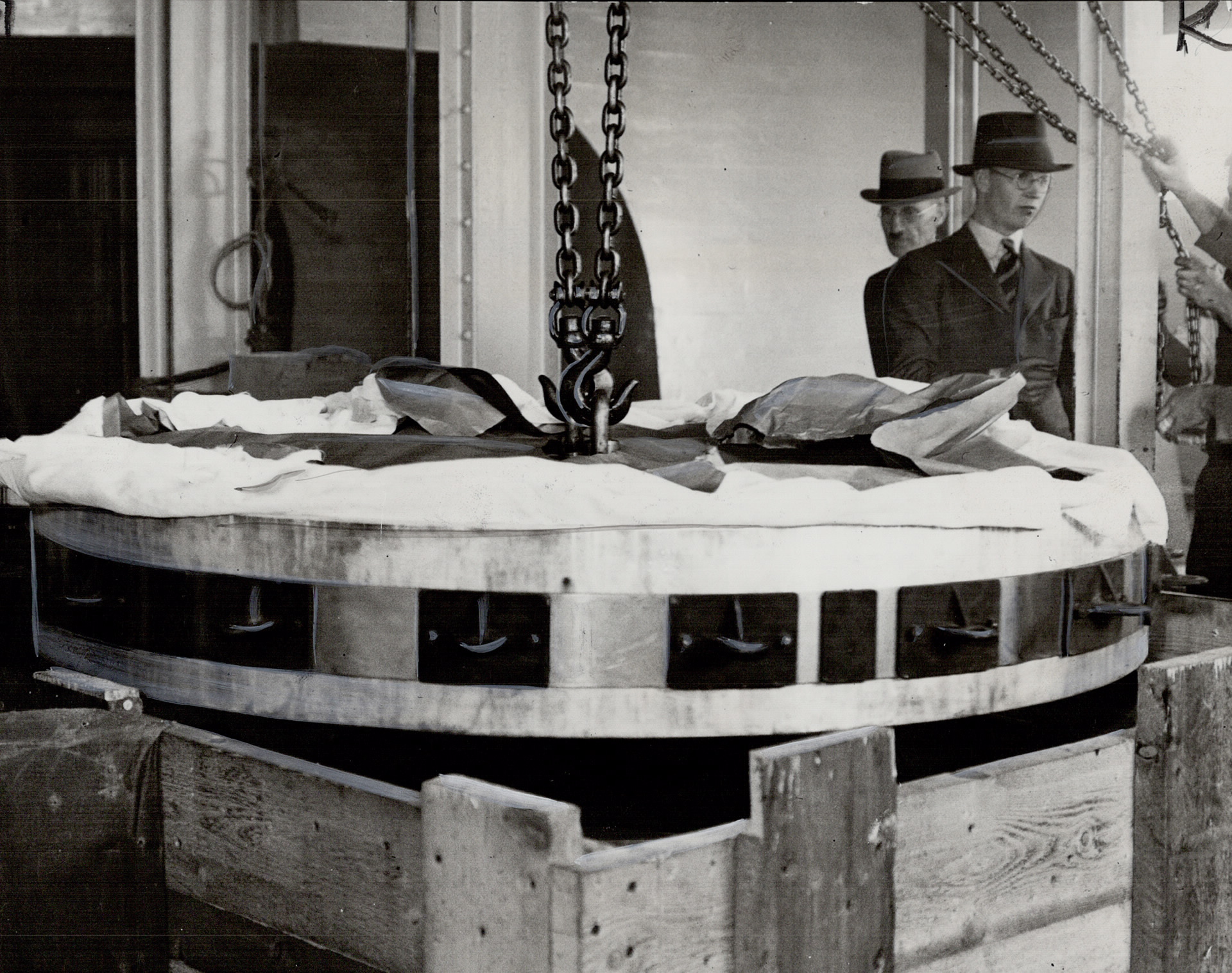 Template:Installation of the mirror at the Dunlap Observatory.